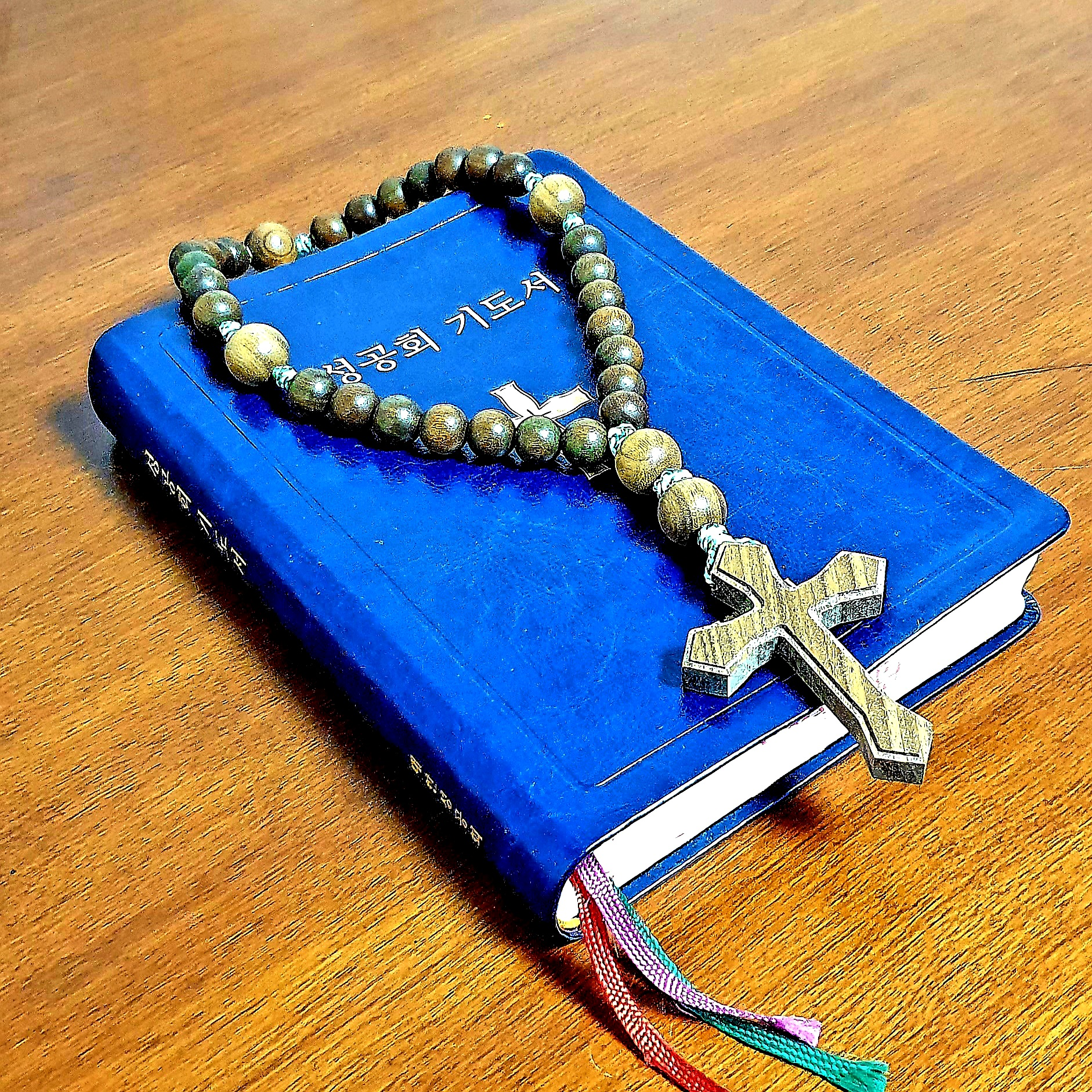 anglican rosaru